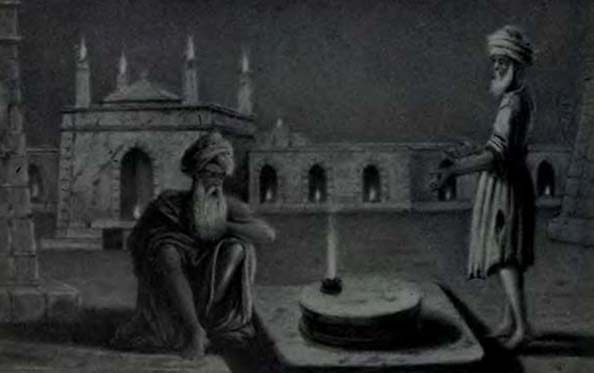 Line of fires around altar